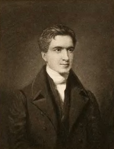 Portrait of astronomer Rev. Thomas Romney Robinson (1792-1882) in his youth.